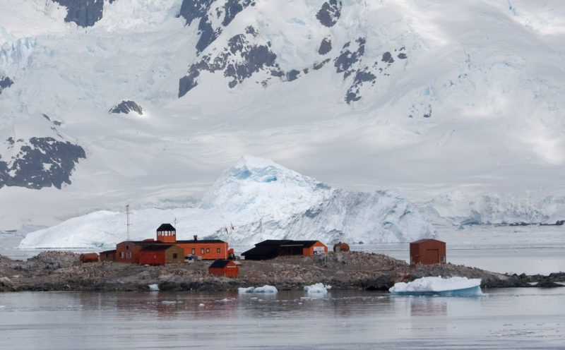 González Videla Antarctic Base